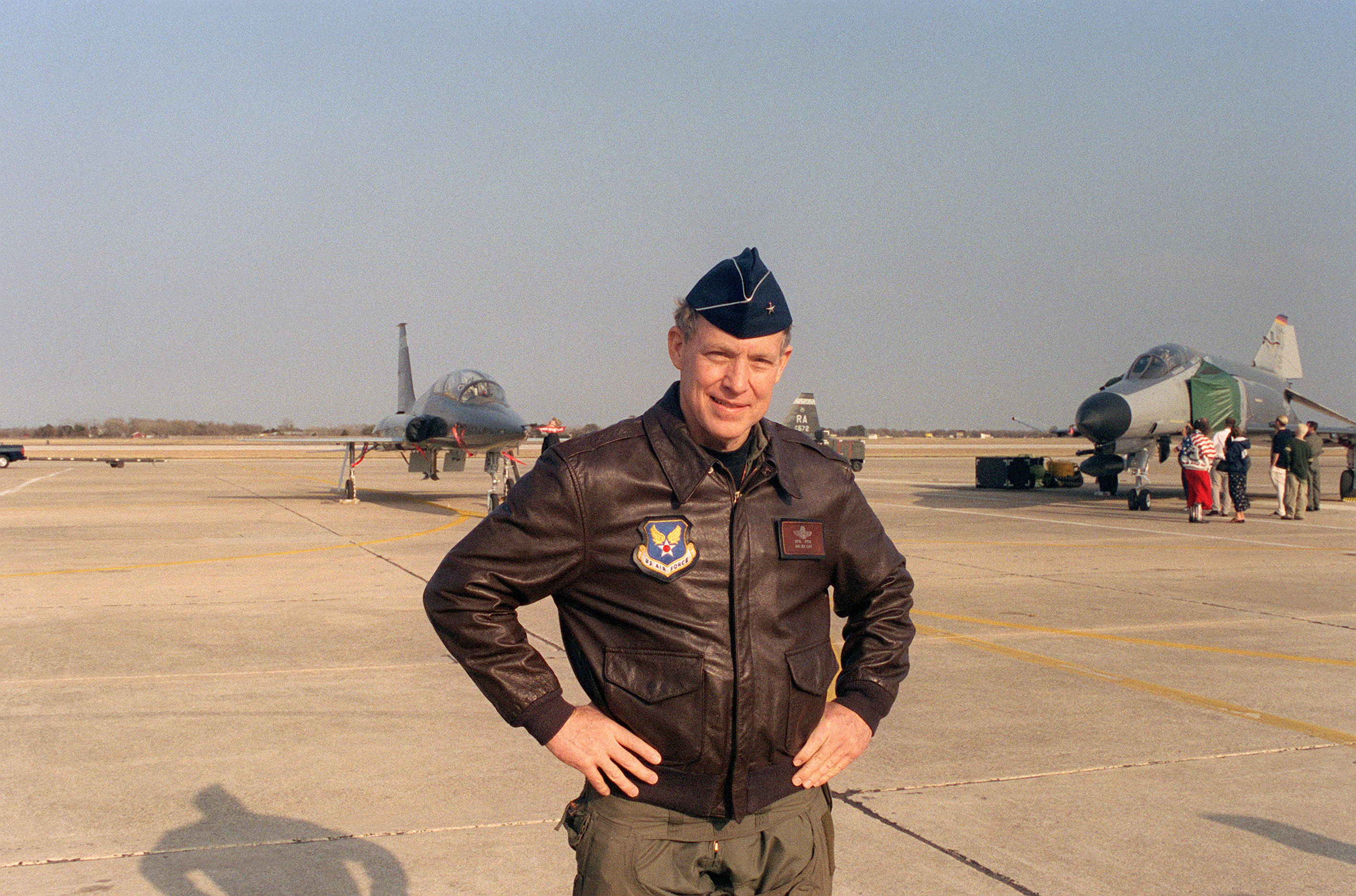 For his last career flight, Brigadier General Steve Ritchie, a Vietnam era Air Force Ace, will perform a modified aerial demonstration in an AT-38 Talon before retiring in a ceremony at Hangar 4 at Randolph Air Force Base. Location: RANDOLPH AIR FORCE BASE, TEXAS (TX) UNITED STATES OF AMERICA (USA)